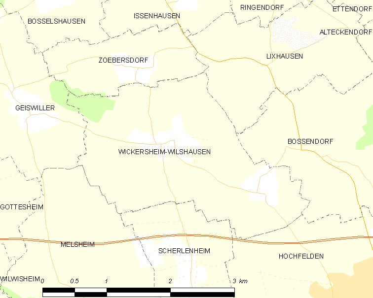 Map of French municipality